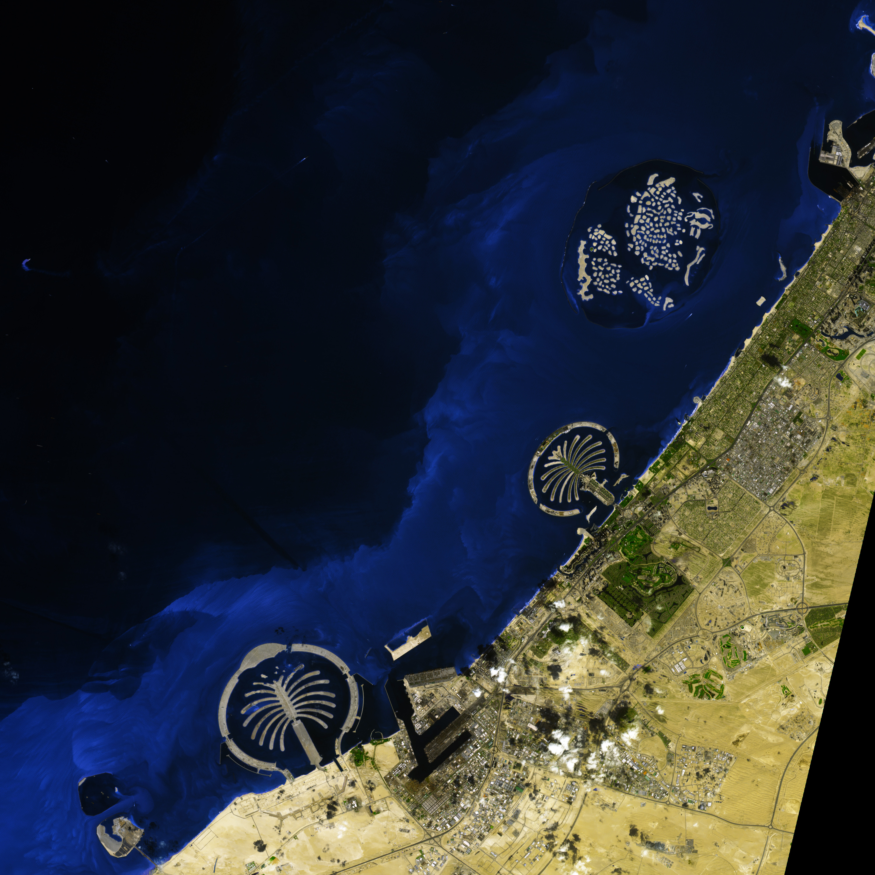 The World Archipelago, Persian Gulf. The image shows the project on February 5, 2009. All the continents are represented (the “map” is tilted toward the left). A breakwater surrounds the archipelago, and its role is obvious: outside the perimeter, especially to the northwest, the waters of the Gulf ripple with waves that would wear the artificial islands away.